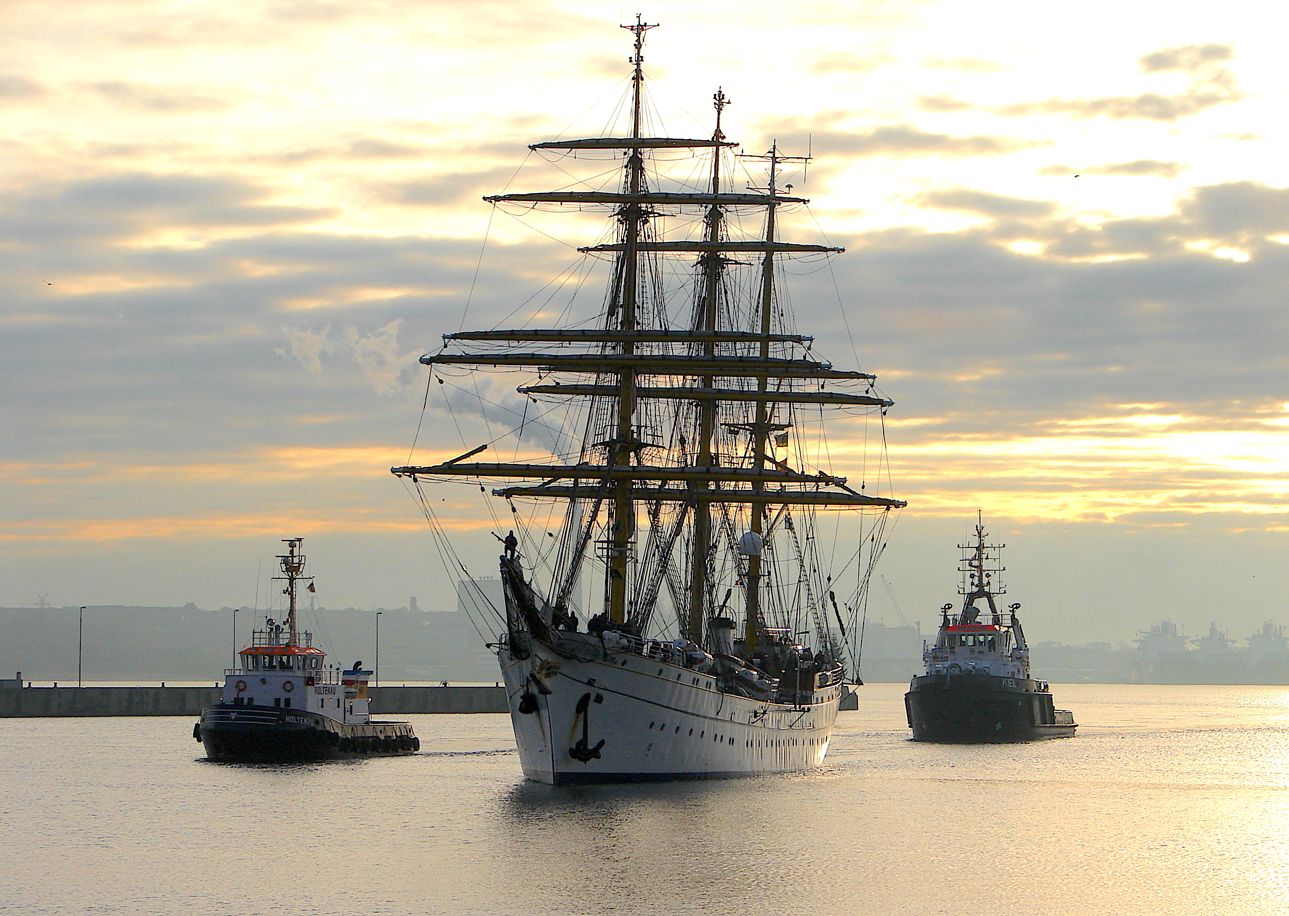 Gorch Fock sailing into home port Kiel (2009)